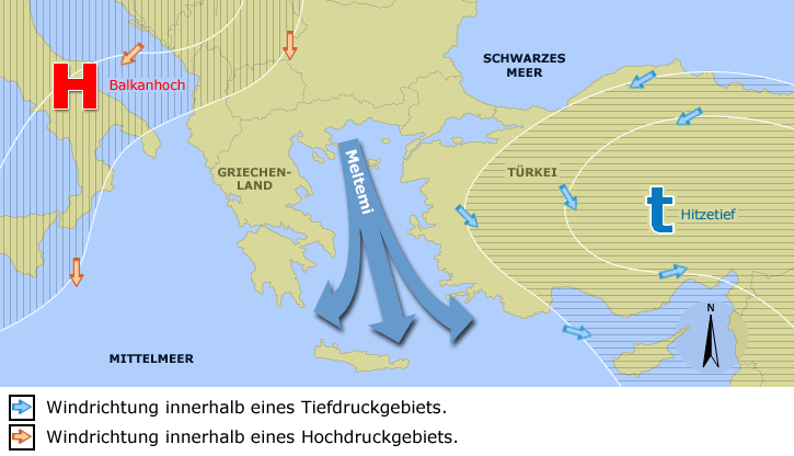 Origin of Etesian Winds. Polar stereographic projection, Map center is at 40° East, 26° North. Created with Front Painter v2.0a (Freeware).